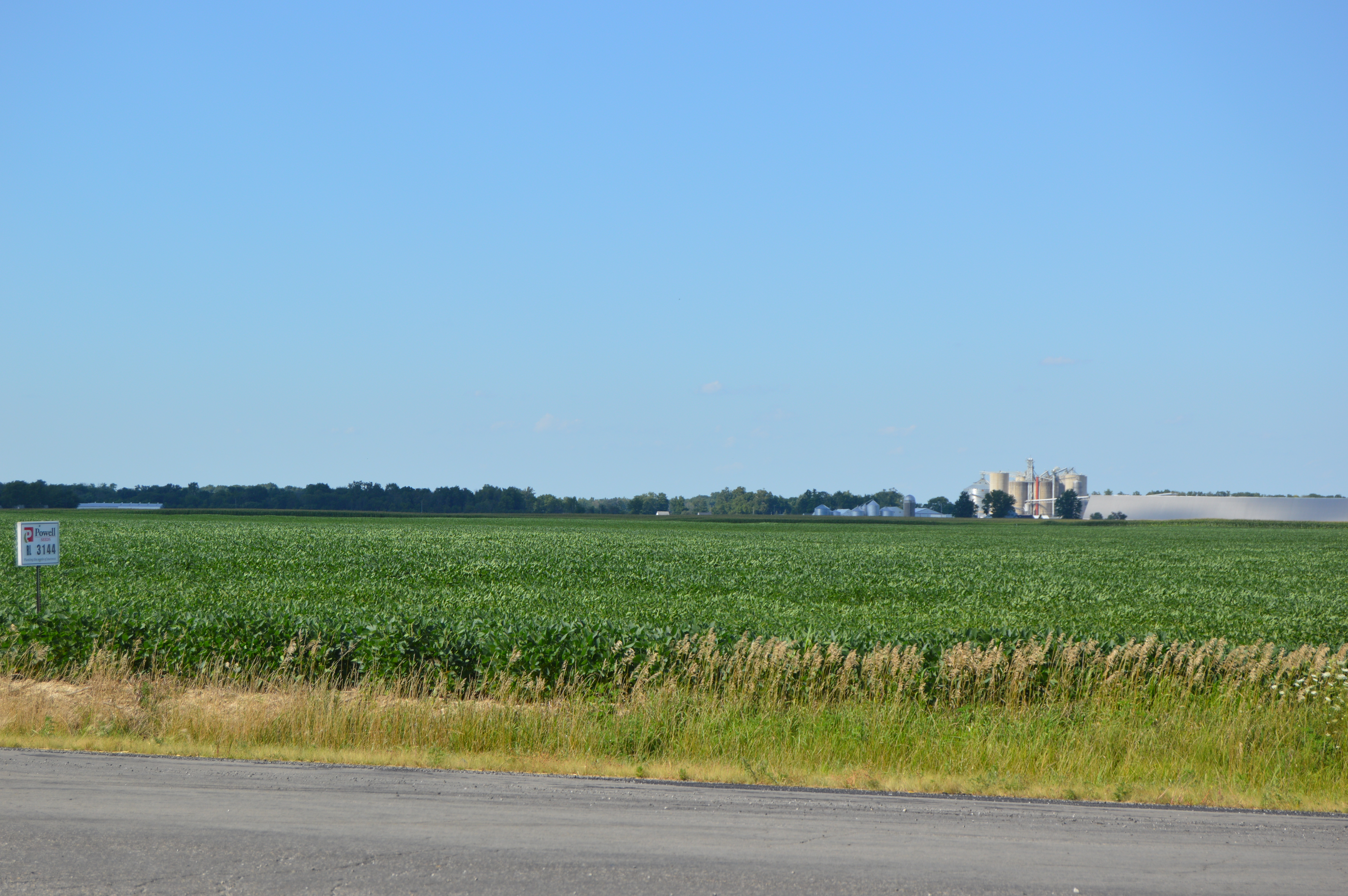 Fields in southwestern Jackson Township, Miami County, Indiana, United States, looking north-northeast from the junction of State Roads 18 and 19. The Kokomo Grain elevator at Amboy can be seen in the distance.